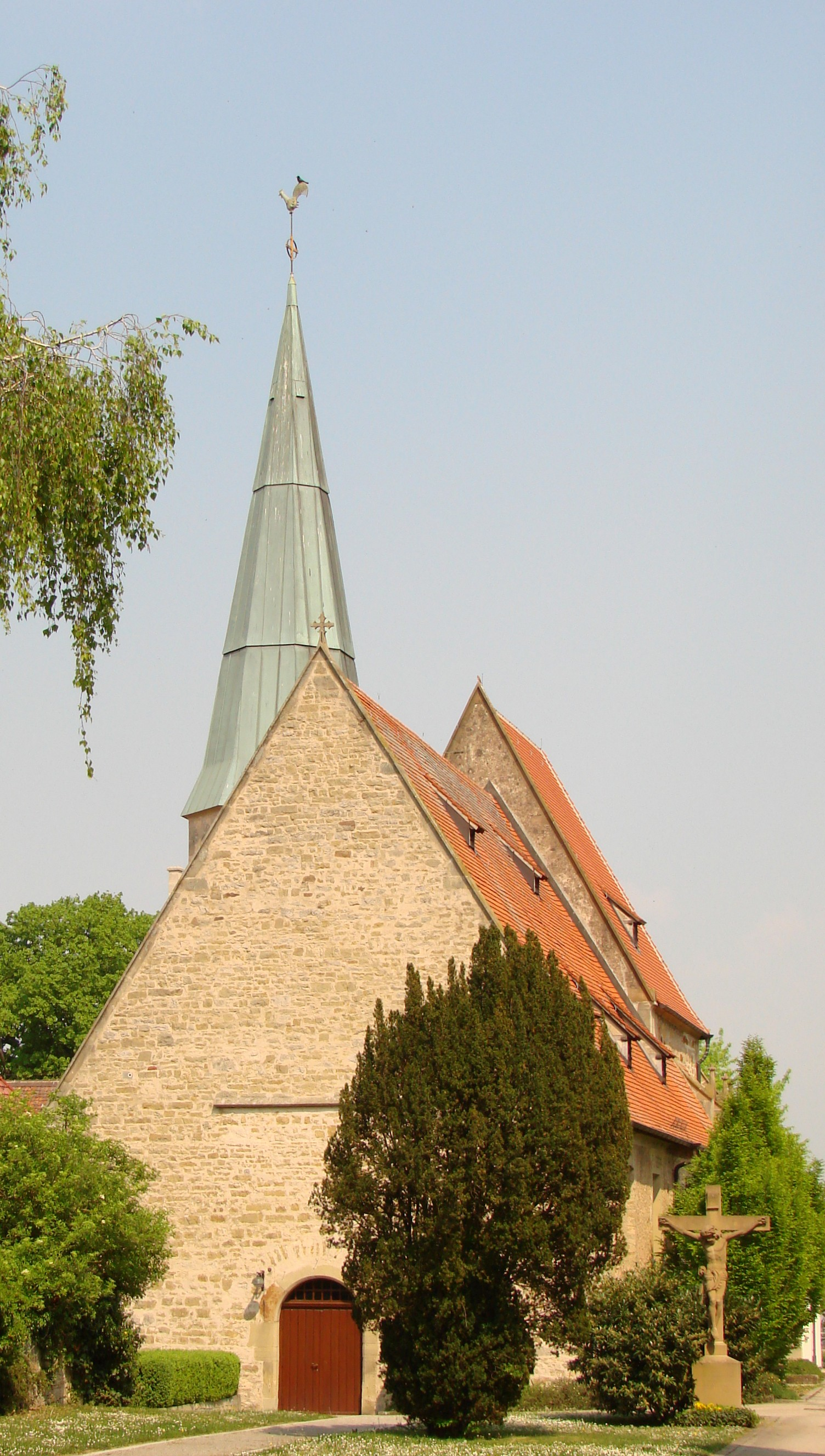 Eberdingen, Kirche zum Heiligen Kreuz (church of The Holy Cross) in the community village of Nussdorf